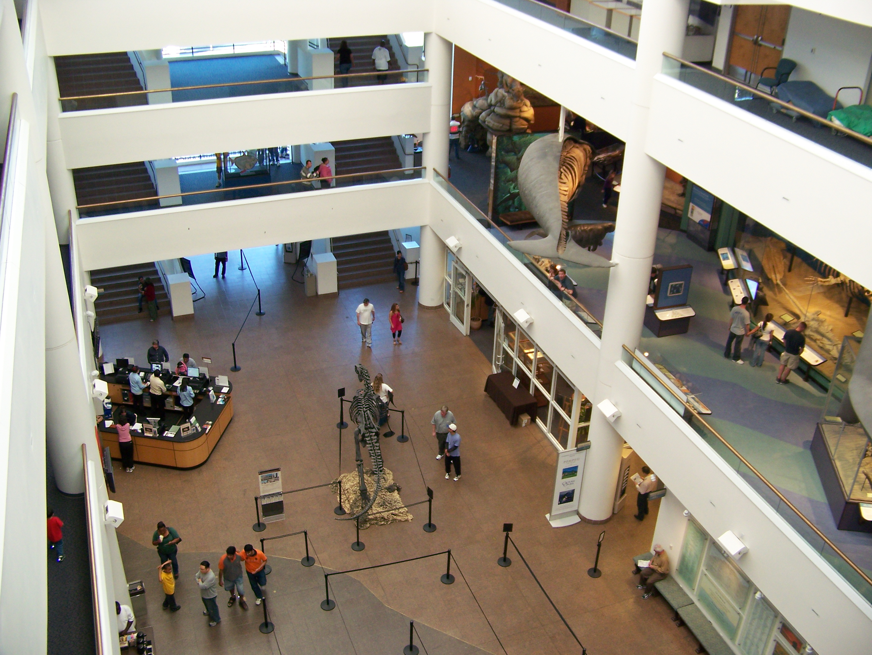 Sea lions at Children's Pool Beach in San Diego, California.